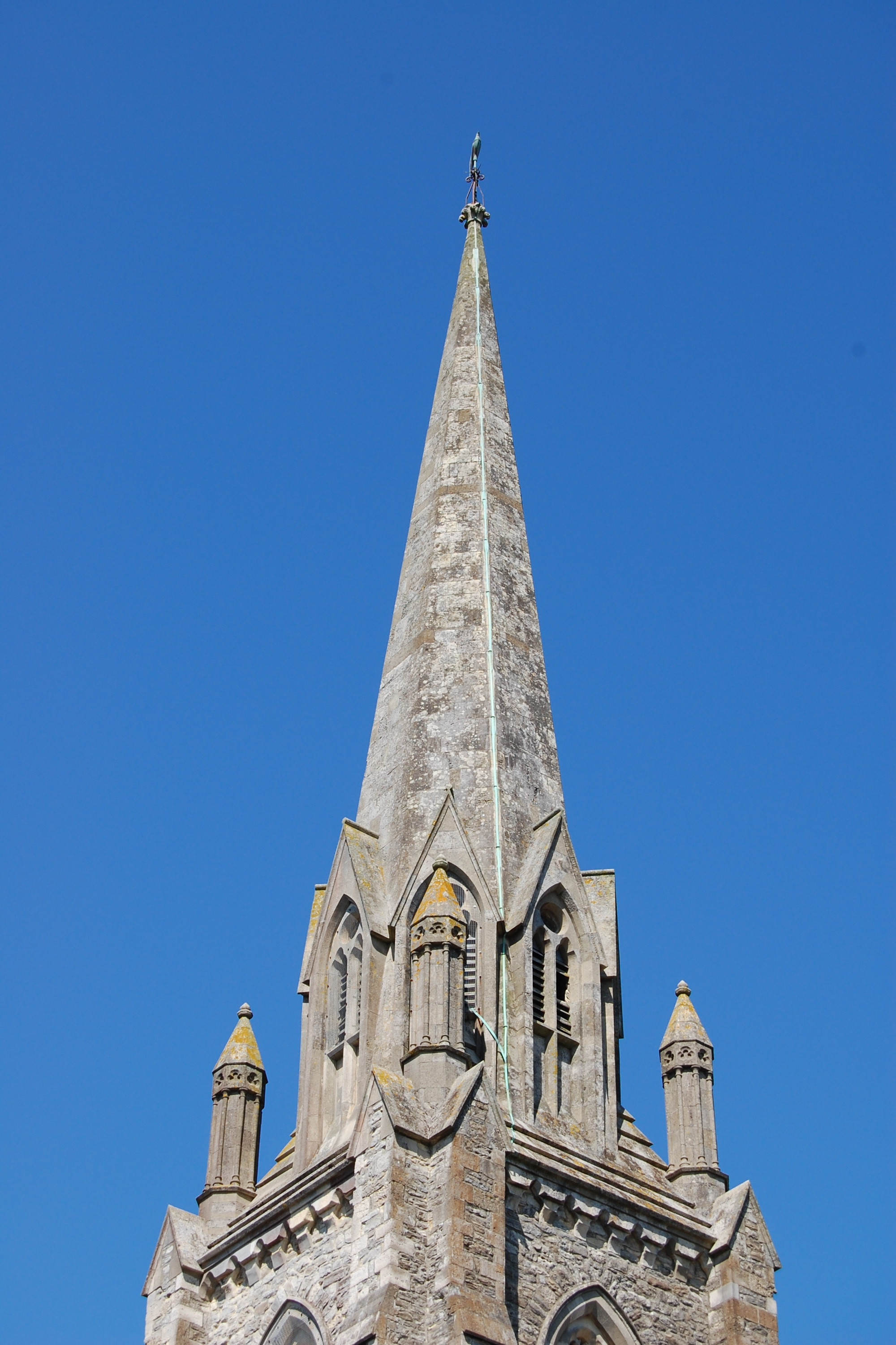 The former Holy Trinity Church, Dover Street, Ryde, Isle of Wight, England. Designed in 1841–46 by local architect Thomas Hellyer. The spire is a landmark for miles around.